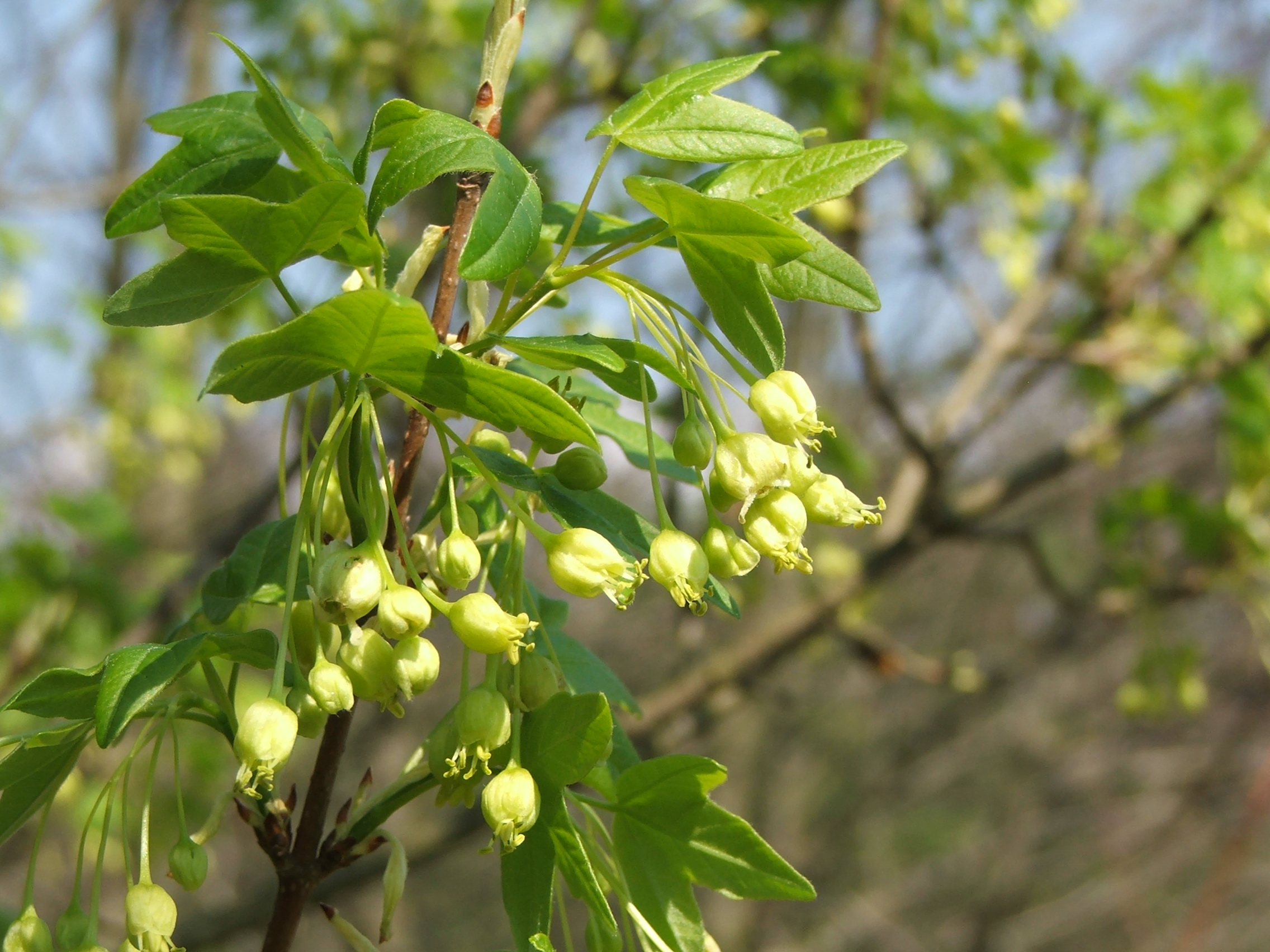 Acer monspessulanum subsp. turcomanicum flower. MTA Botanic Garden Vácrátót, Hungary.